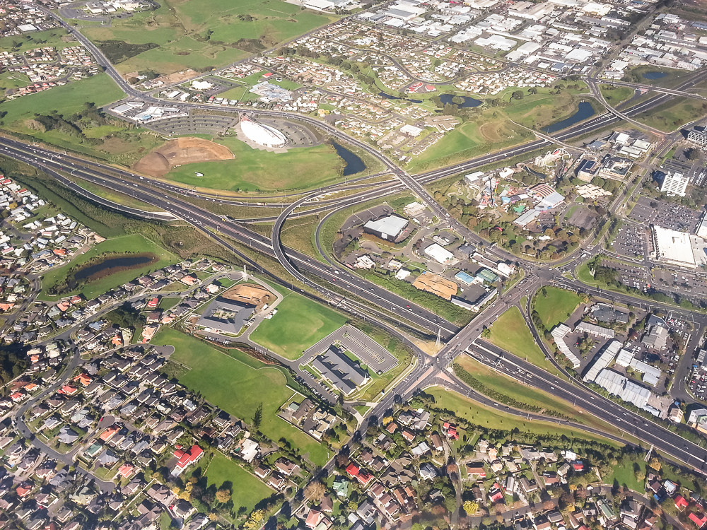 Aerial View of the Vodafone Event Centre, Corner State Highway 1 and State Highway 20